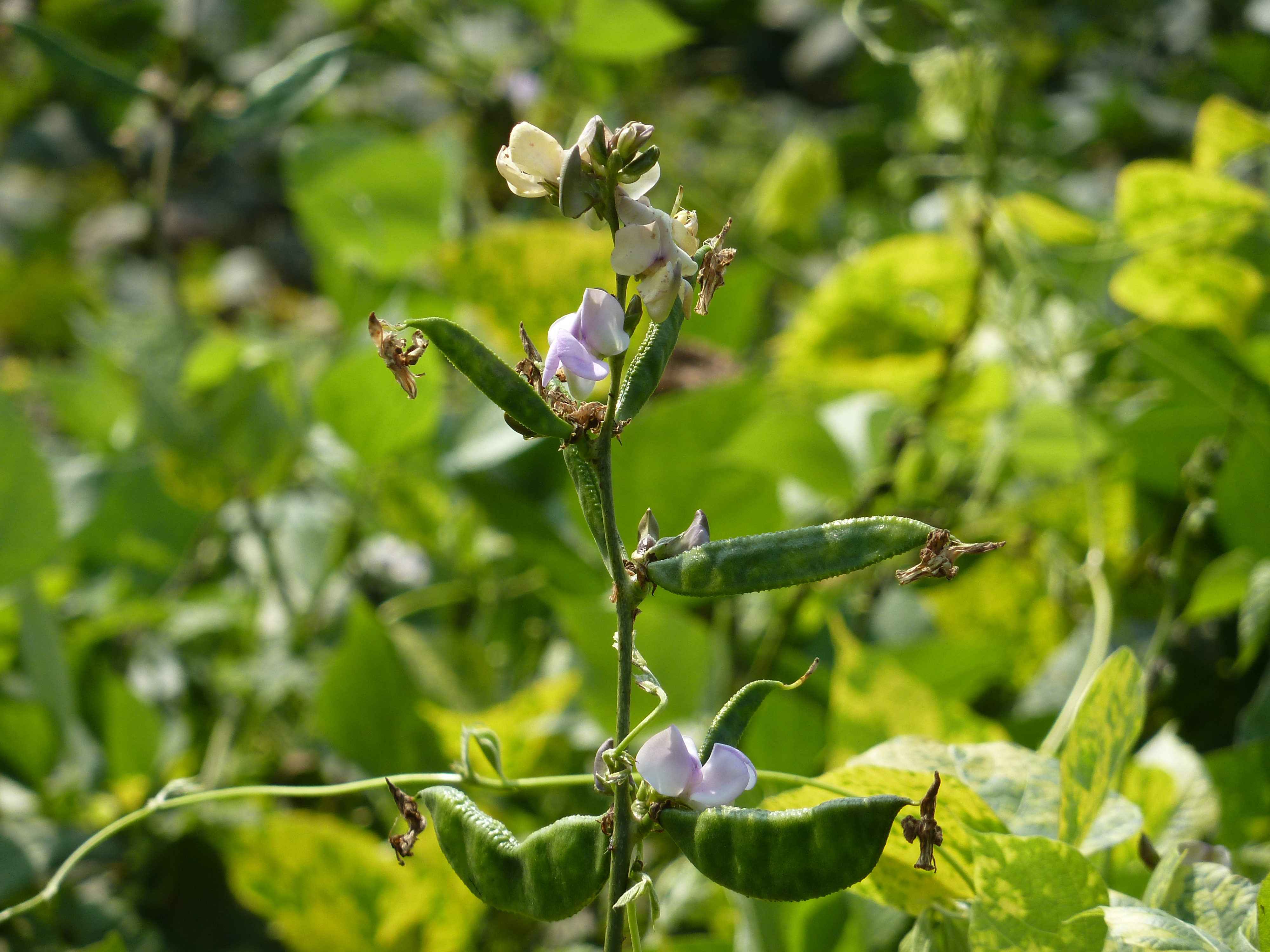 Lablab Bean and bean flower. The photo was taken by me in Nadia district, West Bengal, India.